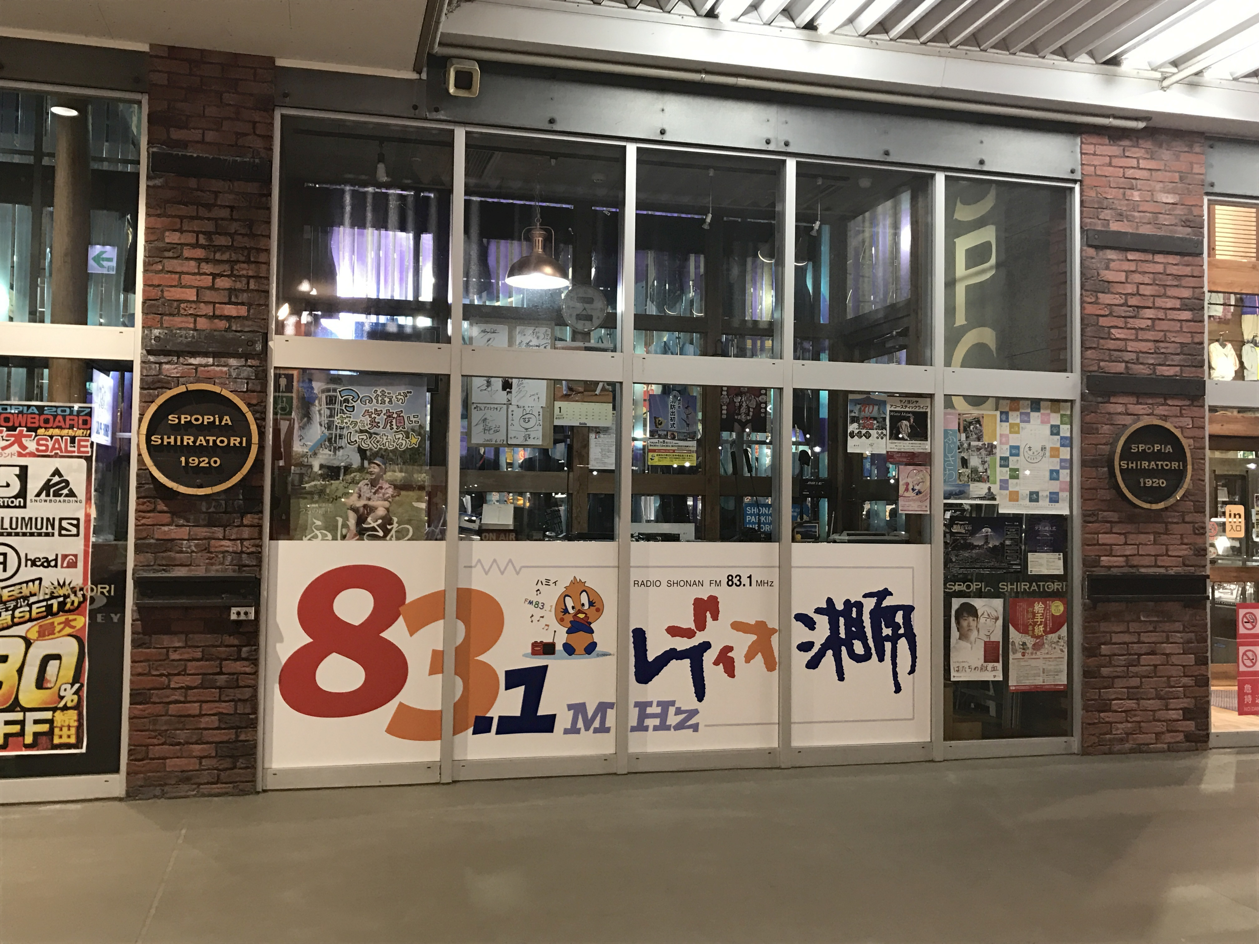 Satellite studio of Radio Shonan in Japan.